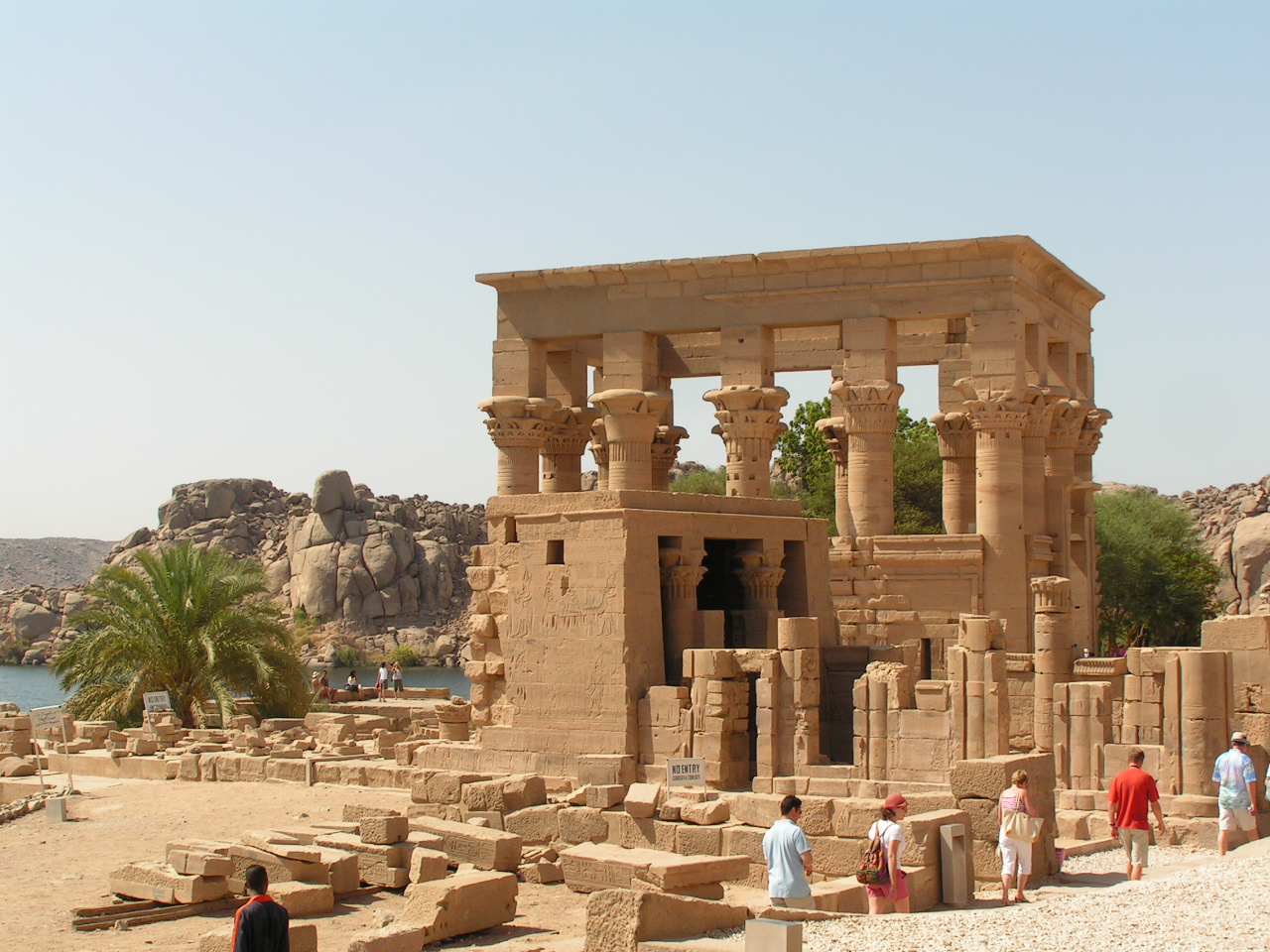 Trajan's Kiosk on Philae